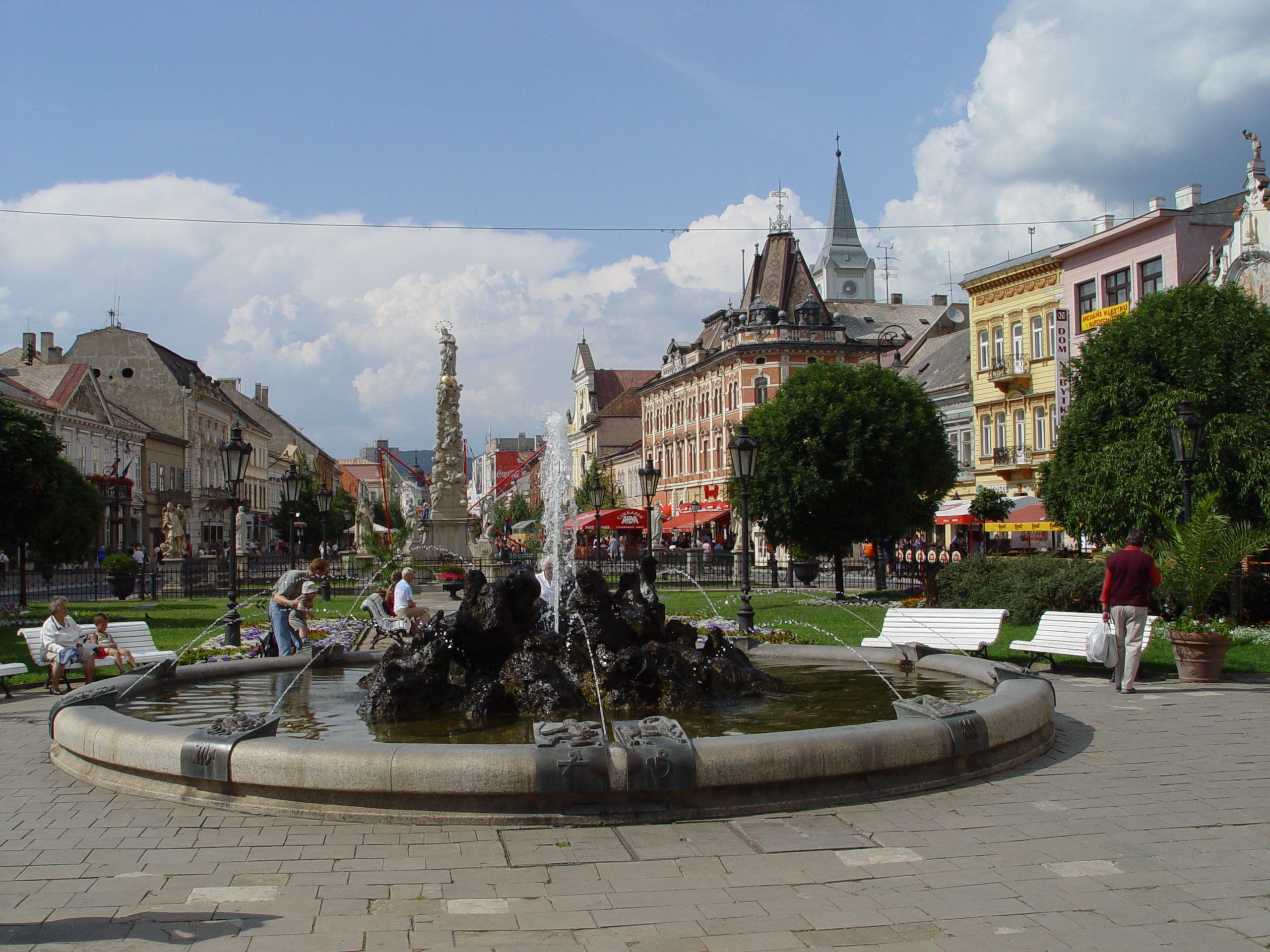 Slovakia, Košice, Main Street